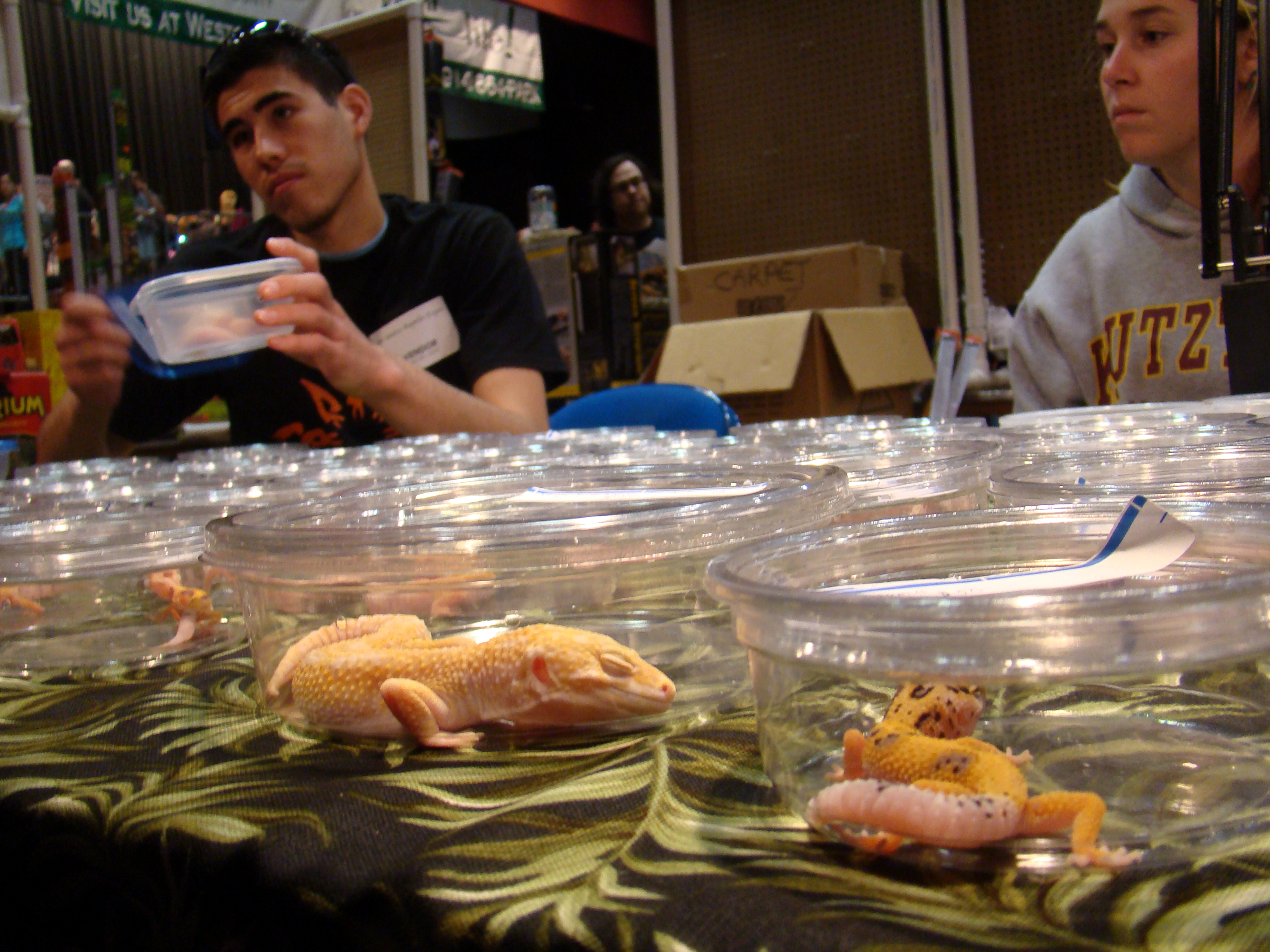 i believe these are albino leopard geckos. (i took the picture mostly just to get a shot of the vendor in the black t-shirt). New York Metro Reptile Expo. Sunday, May 19th, 2009, White Plains, NY.